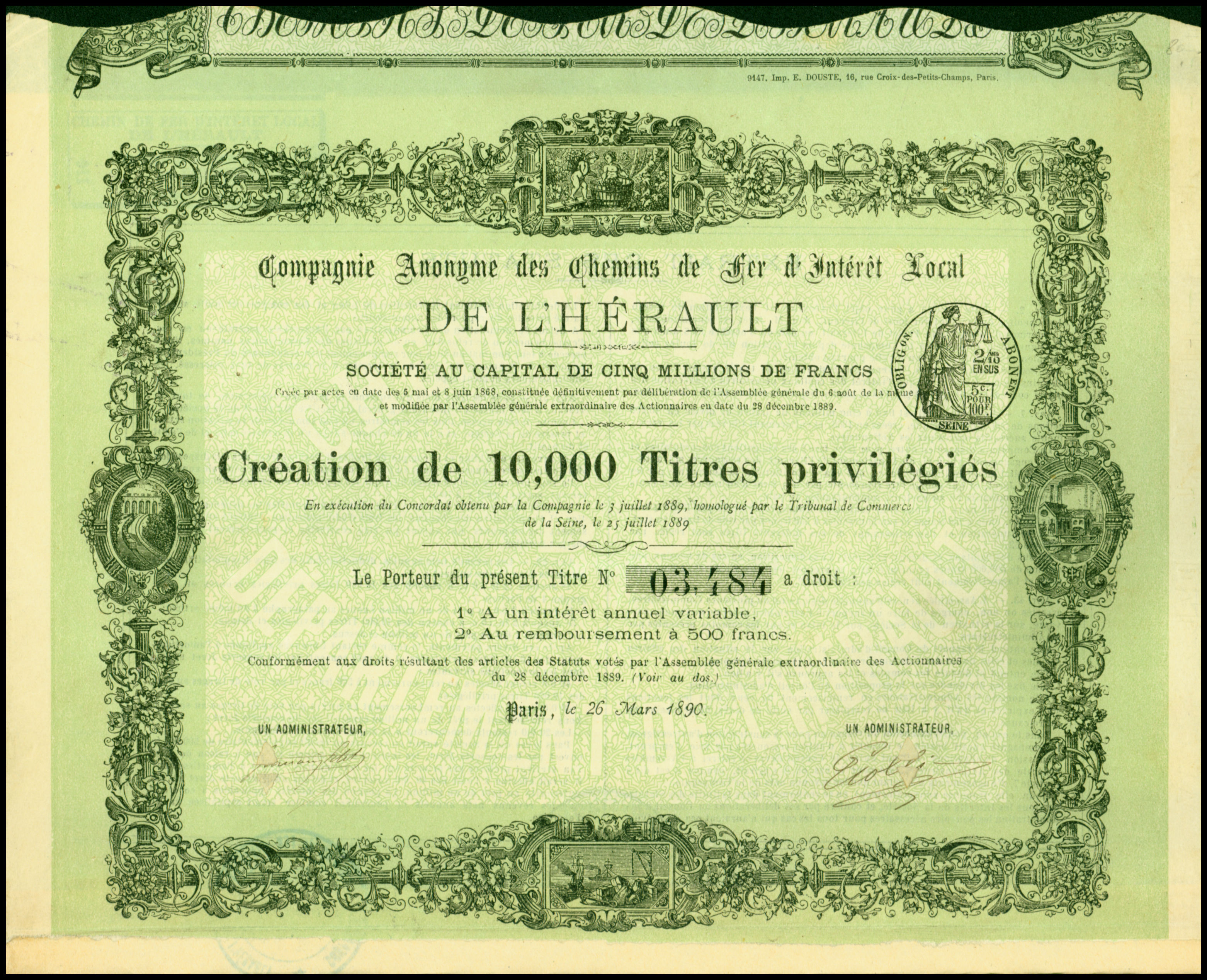 Titre privilégie of the Compangie Anonyme des Chemins de Fer d’Intérêt Local de l’Hérault, issued 26. March 1890